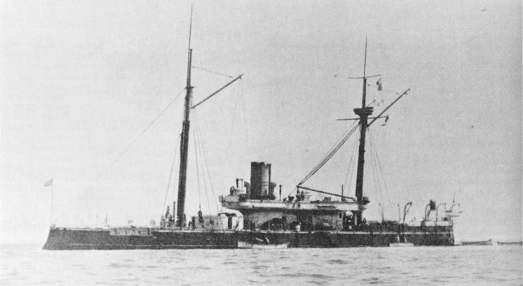 The breastwork monitor HMS Rupert, launched in 1872